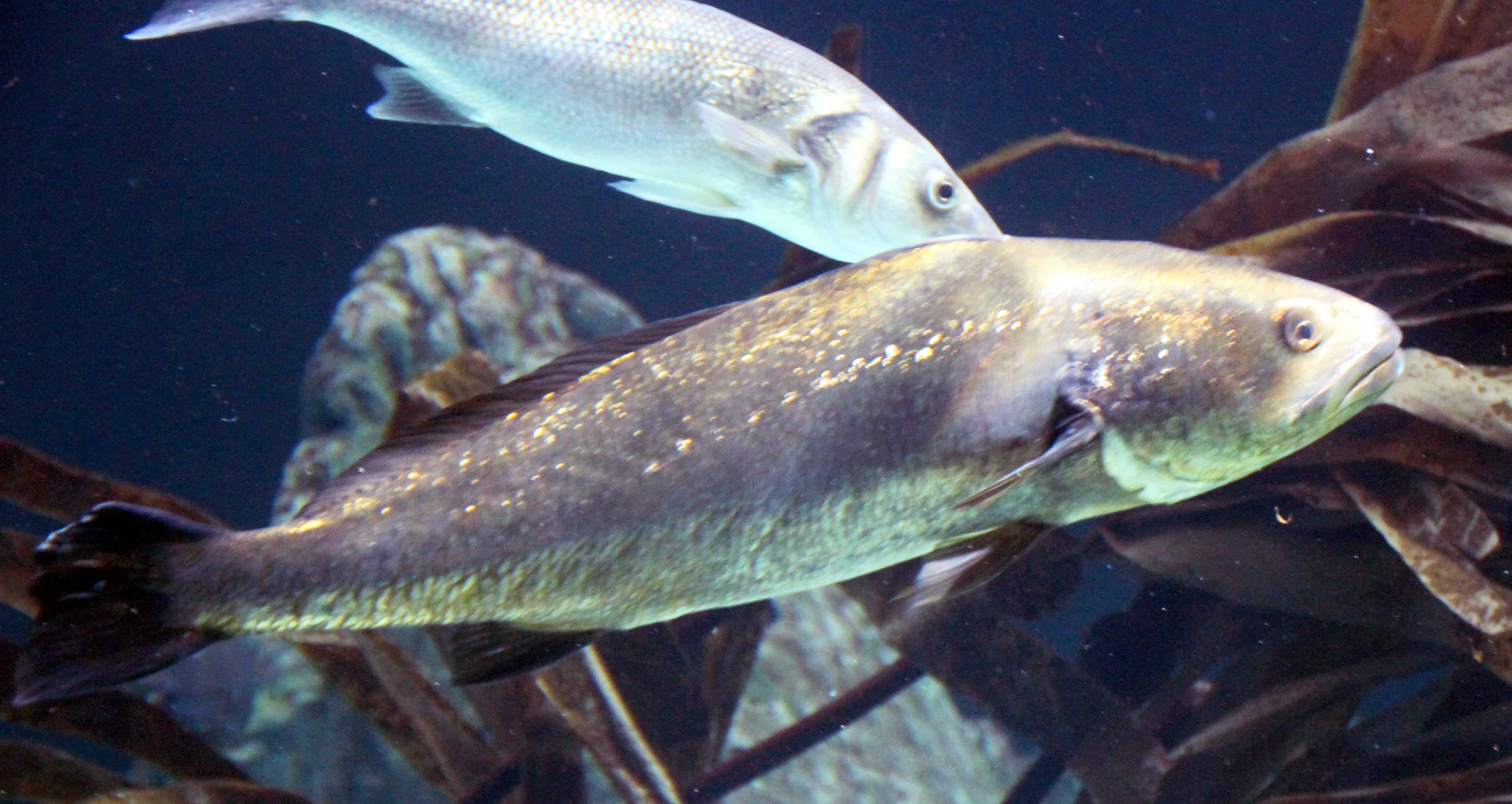 Argyrosomus regius, also known as stone basse or shadow-fish, in the Loro Parque aquarium, Tenerife, Spain.